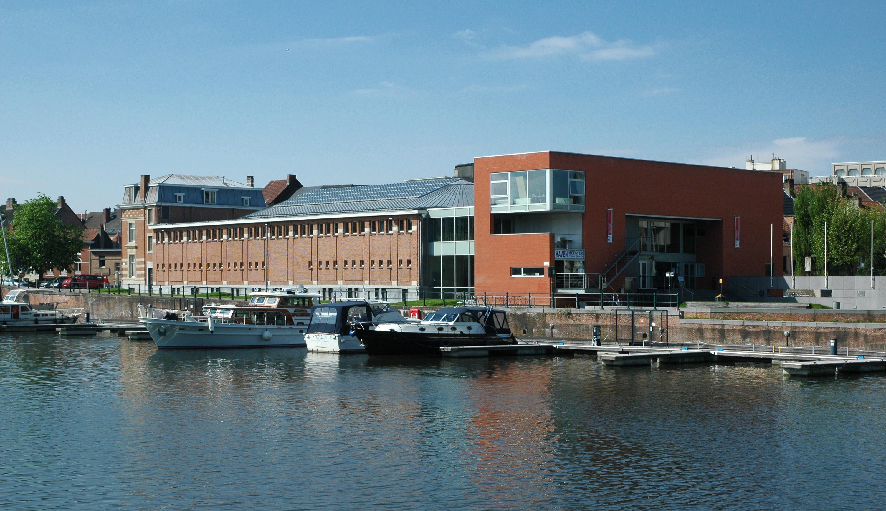 The Van Eyck swimming pool in Ghent, seen from the Voorhoutkaai across the water.